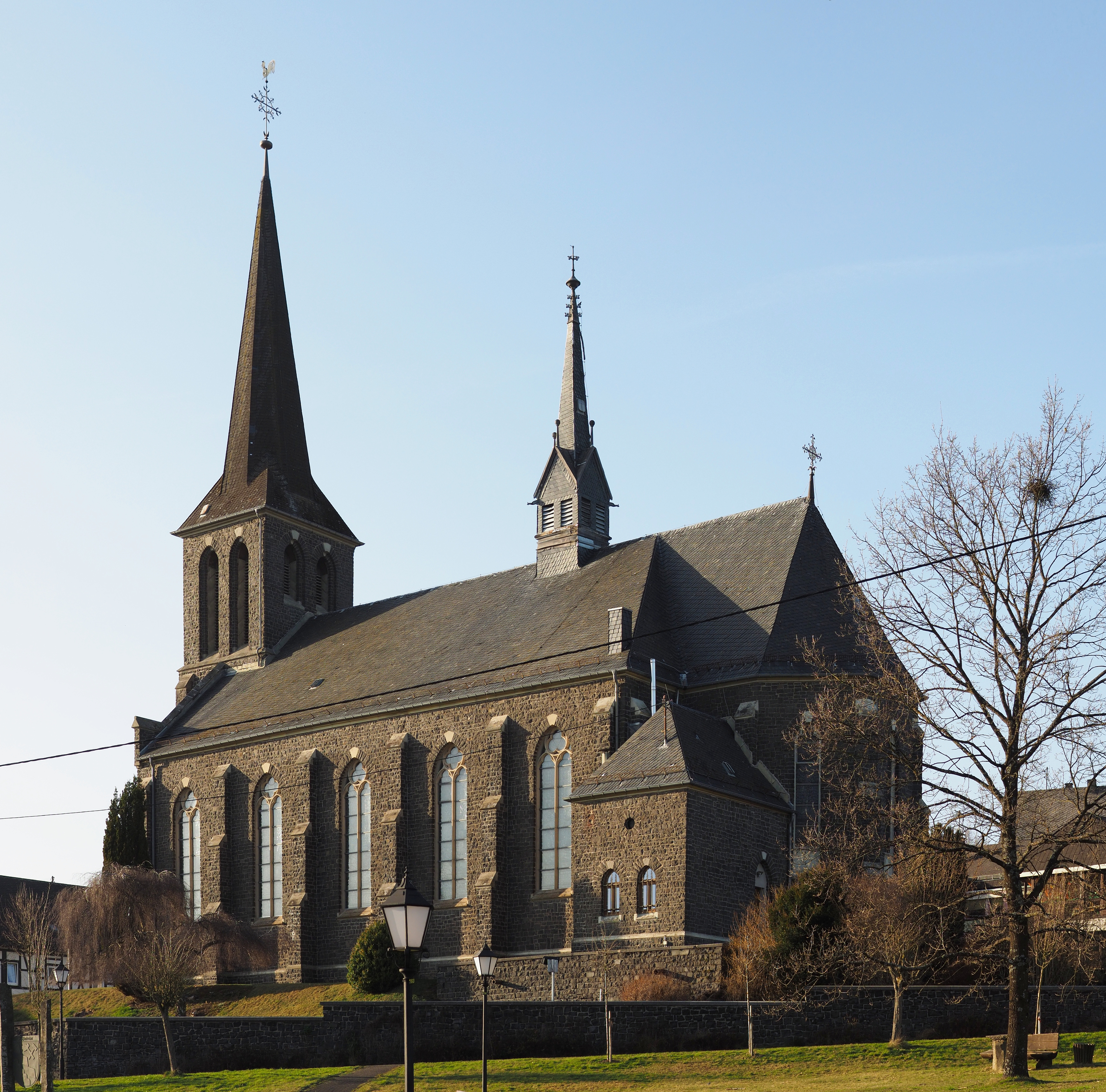 St James Church in Rosenheim (Altenkirchen district), Germany